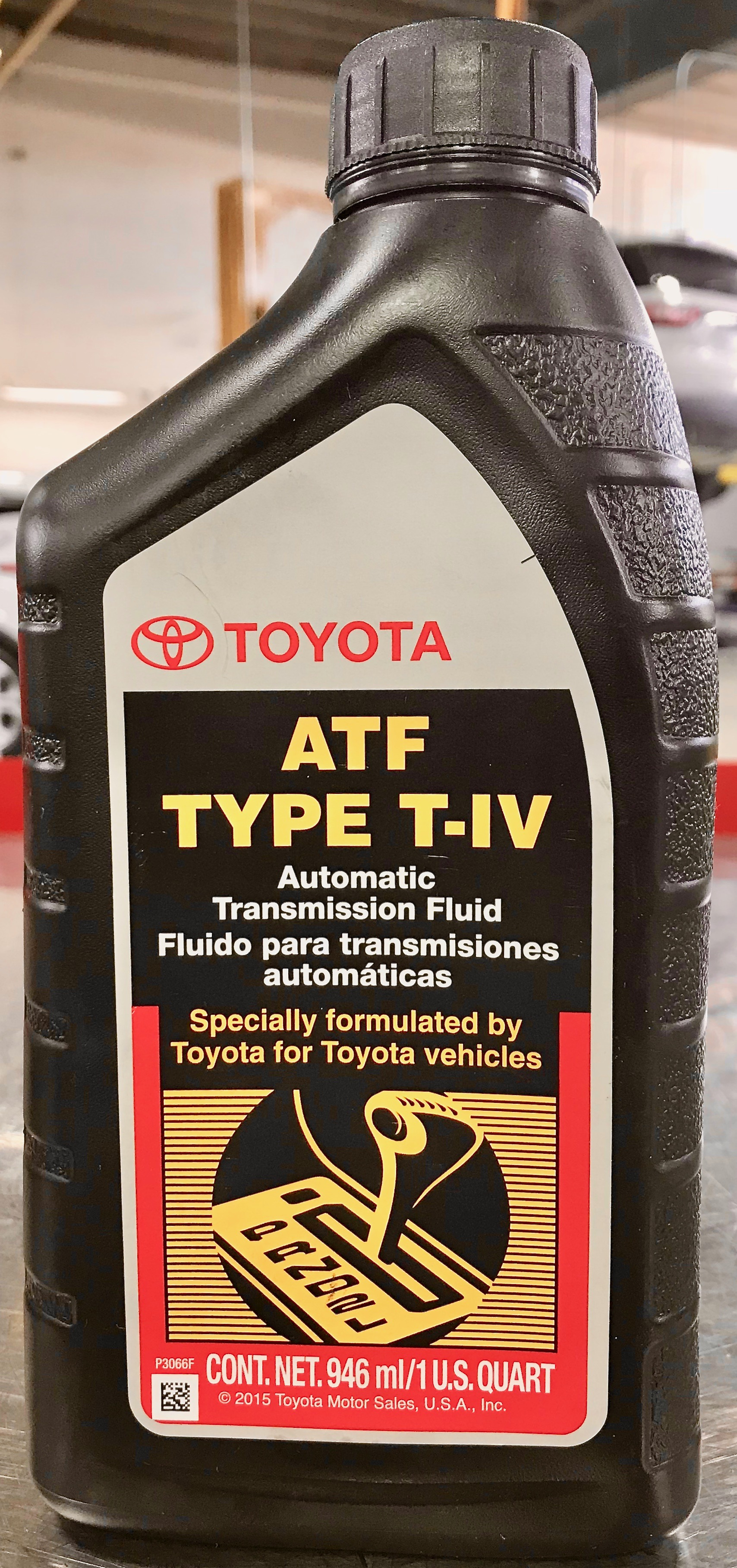 Toyota T-IV ATF